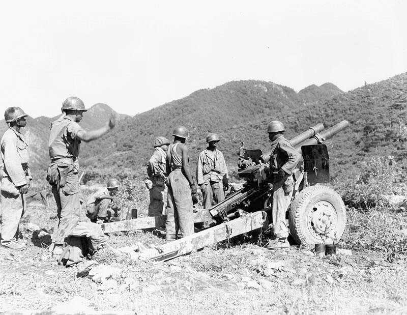 SC344383 - Artillery gun crew waits for the signal to fire on the enemy, somewhere in Korea. 25 July 1950. Korea. Signal Corps Photo #8A/FEC-50-4713 (Breeding)